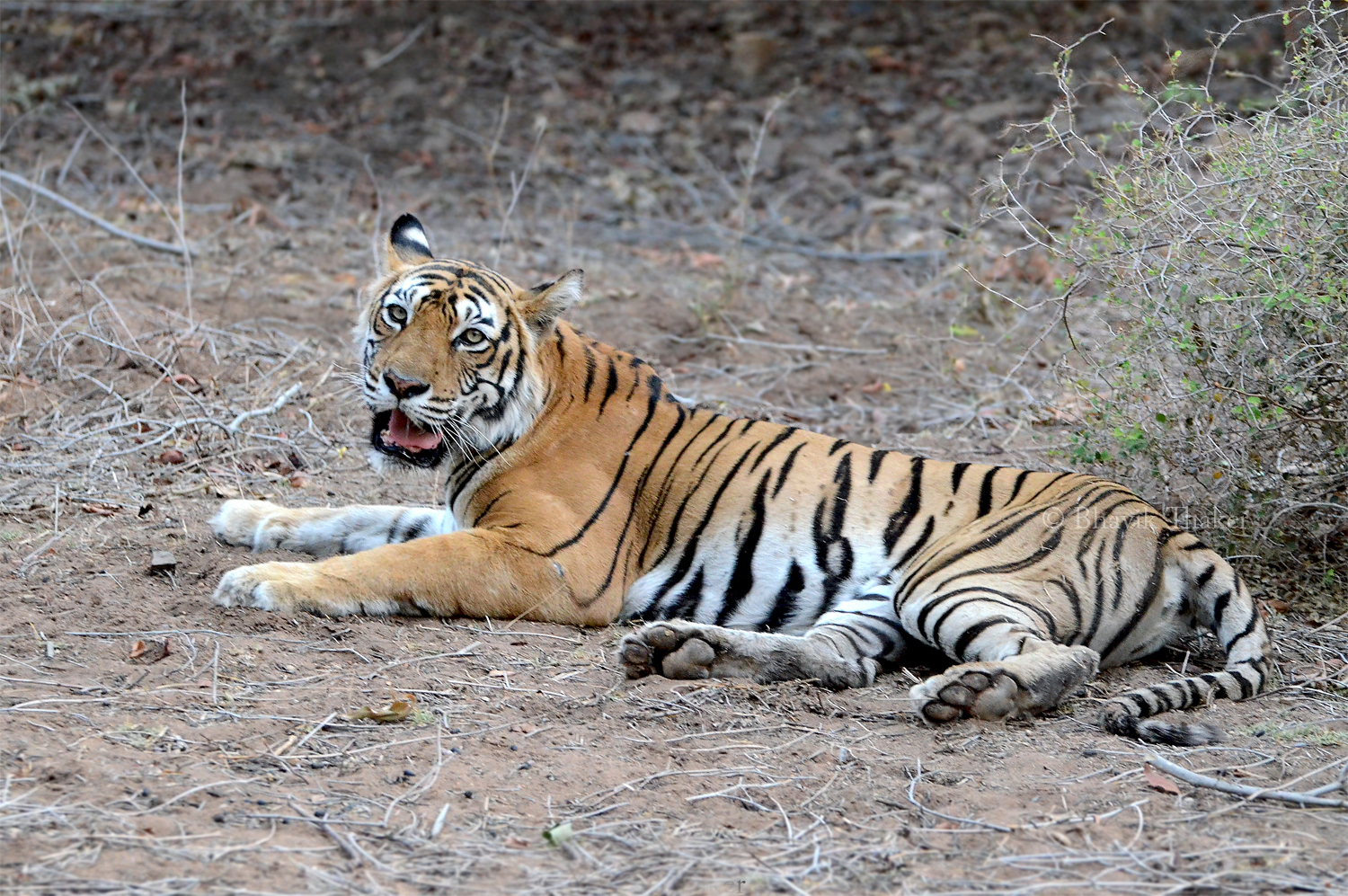 Revised version of original image with watermark removed